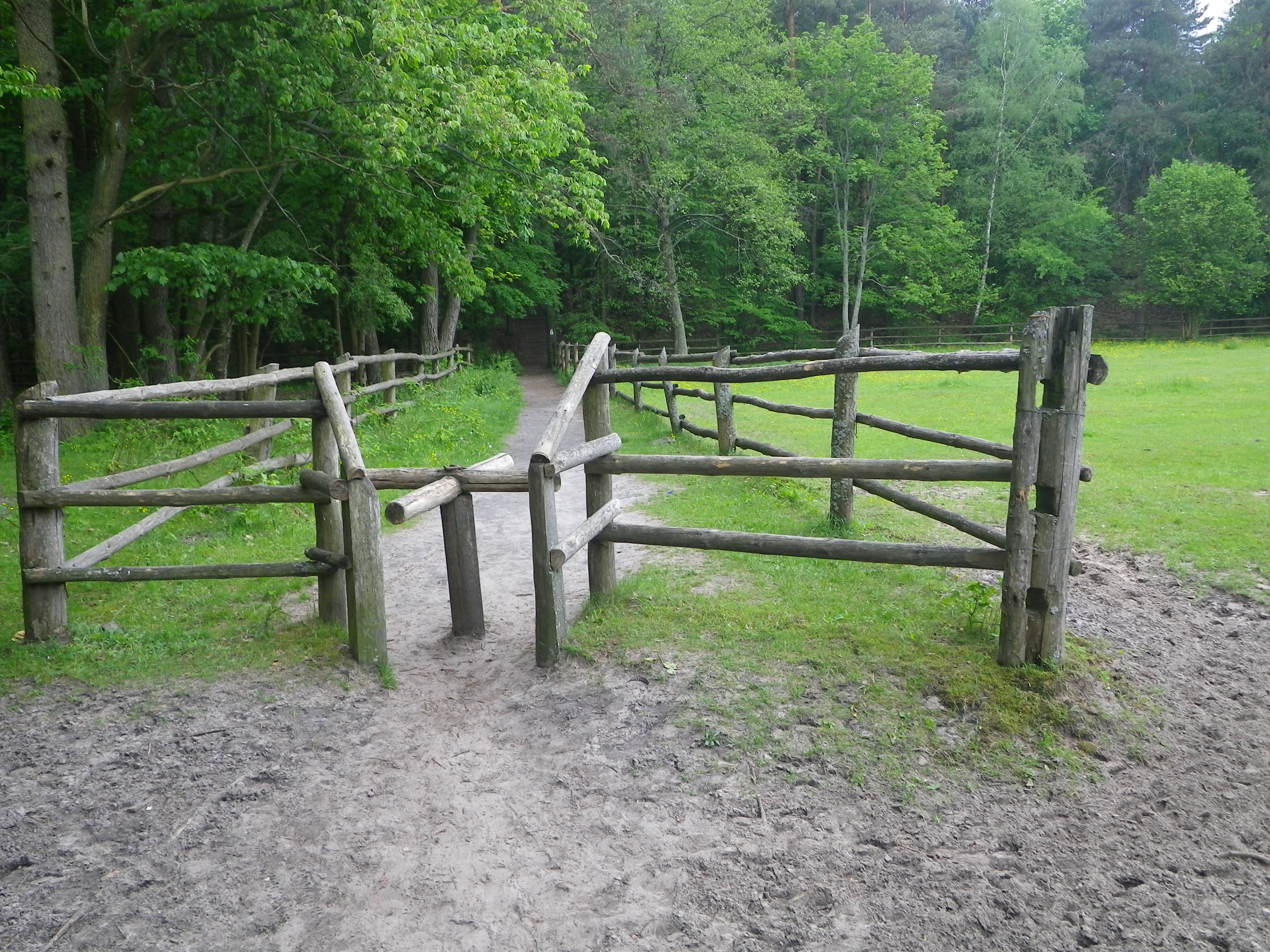 A gate in pony enclosure in Zwierzyniec, Poland.